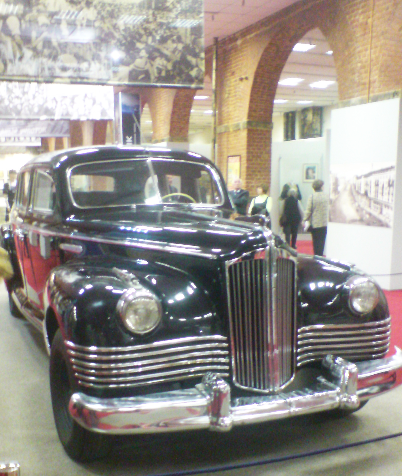 ZIS-110